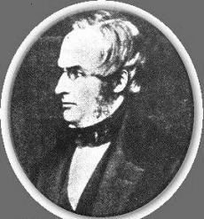 Samuel Prideaux Regelles, nineteenth century biblical scholar